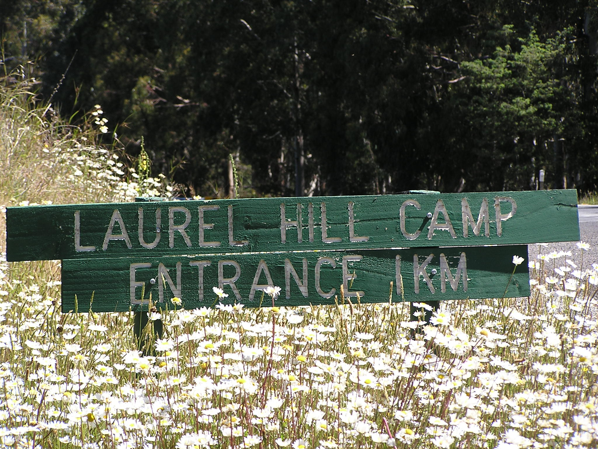 Sign atLaurel Hill, New South Wales, Australia